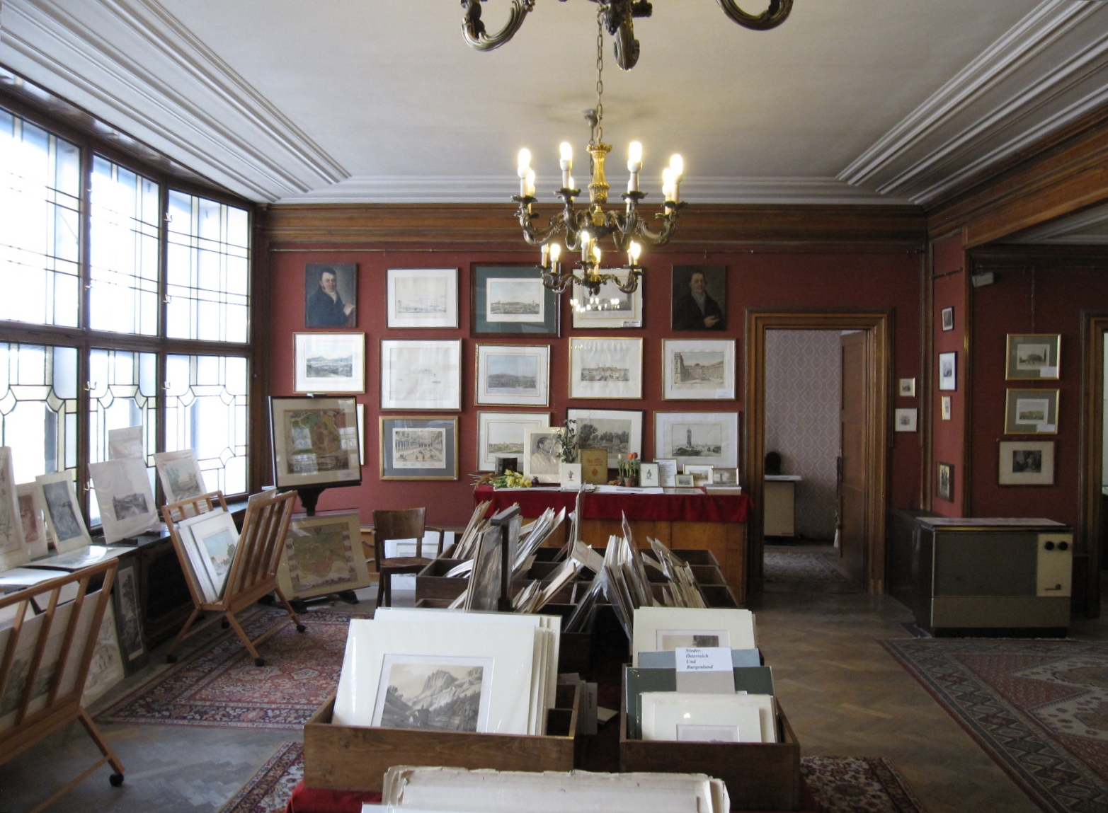 Showroom of Artaria & Co. in the Artaria-Haus in Vienna's Kohlmarkt.